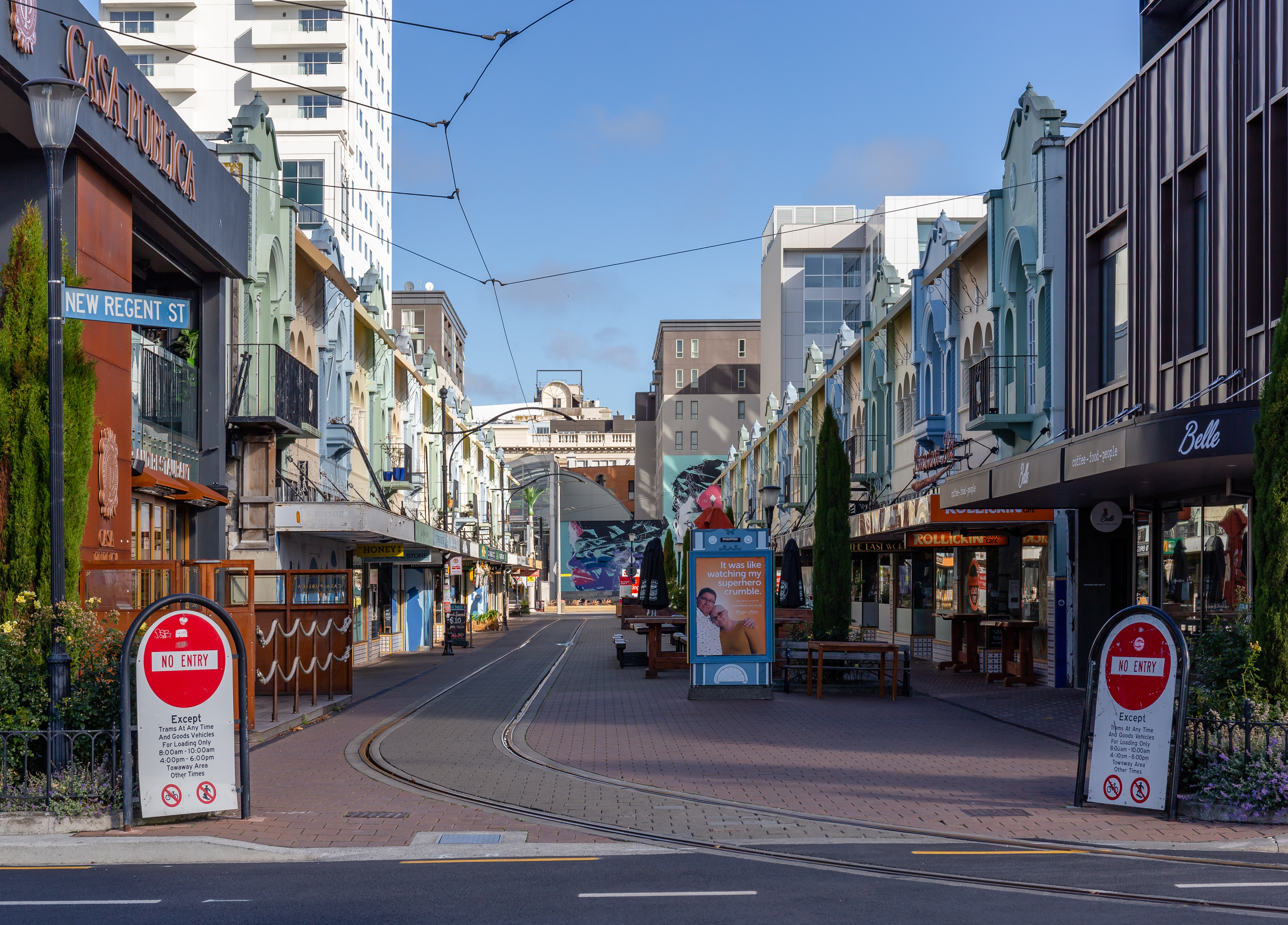 New Regent Street during the COVID-19 pandemic, Christchurch, New Zealand